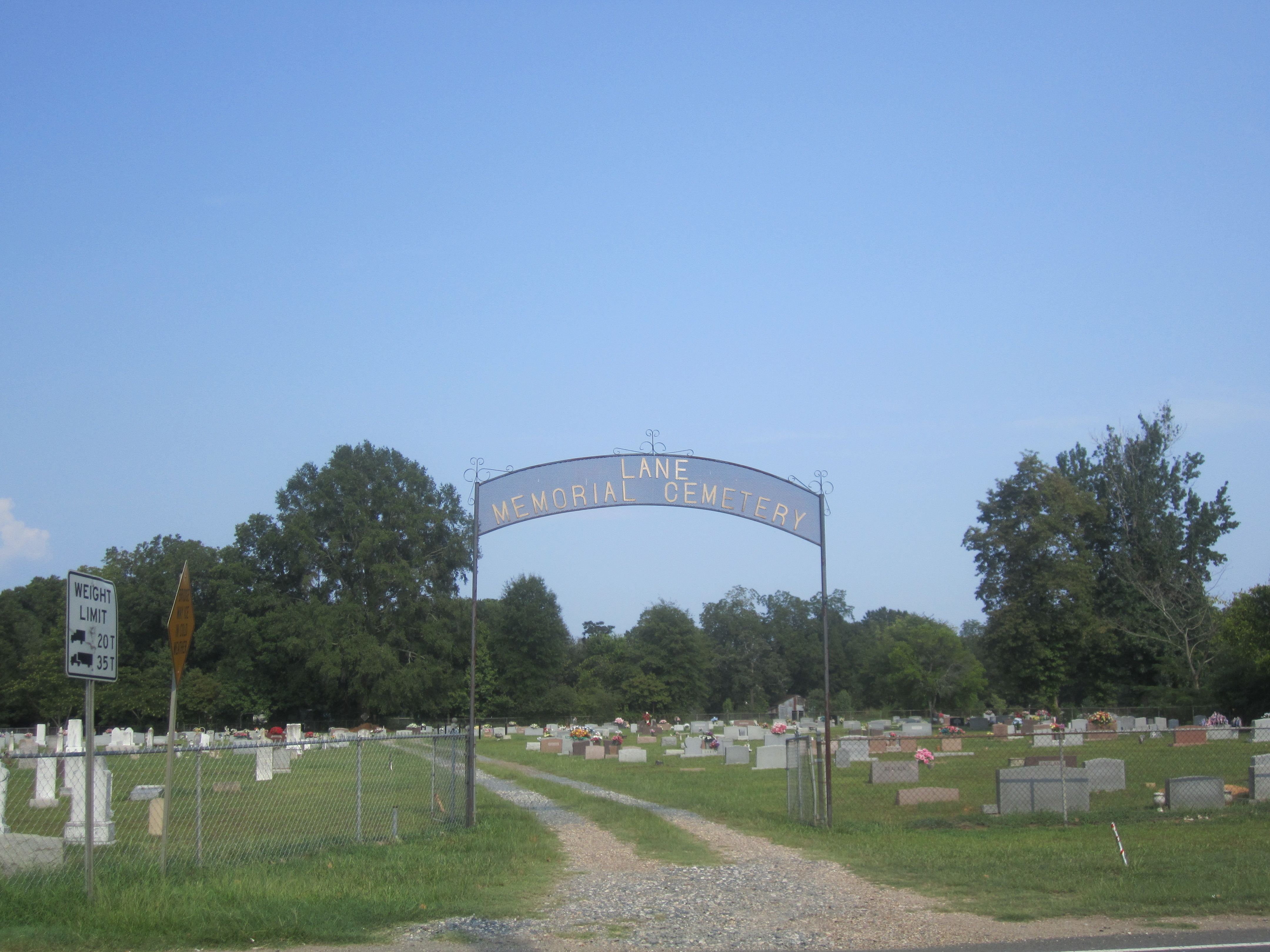 I took photo with Canon camera in Sibley, LA.